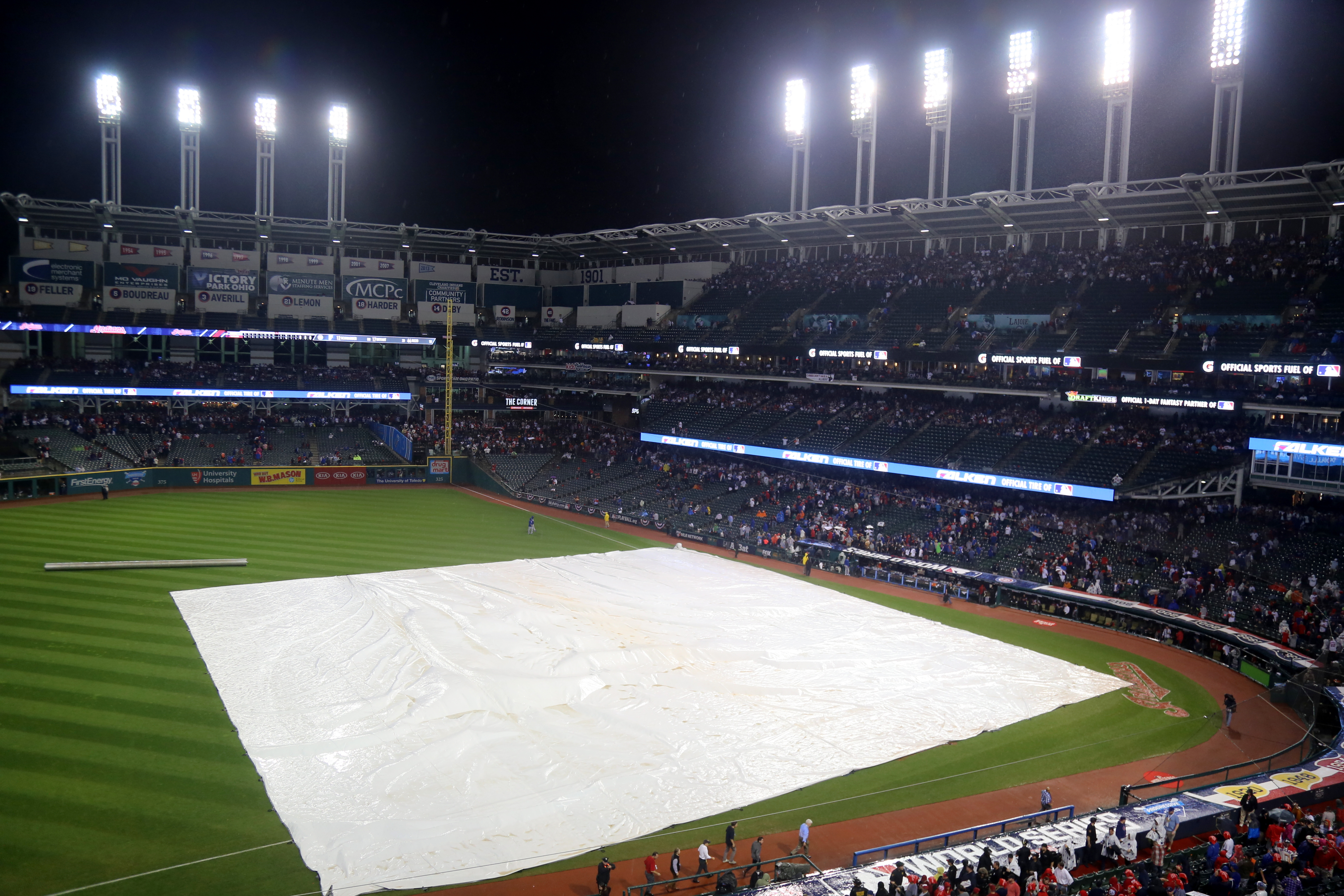 The tarp is on the field during the 10th inning of World Series Game 7.